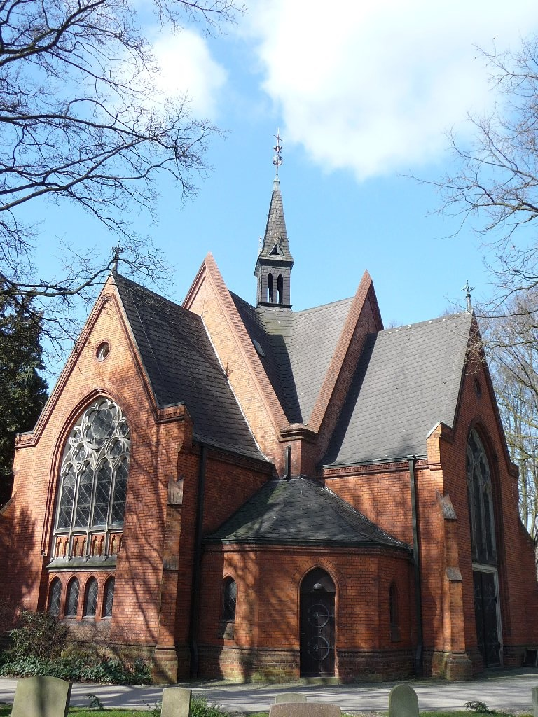 Chapel at graveyard Riensberg in Bremen